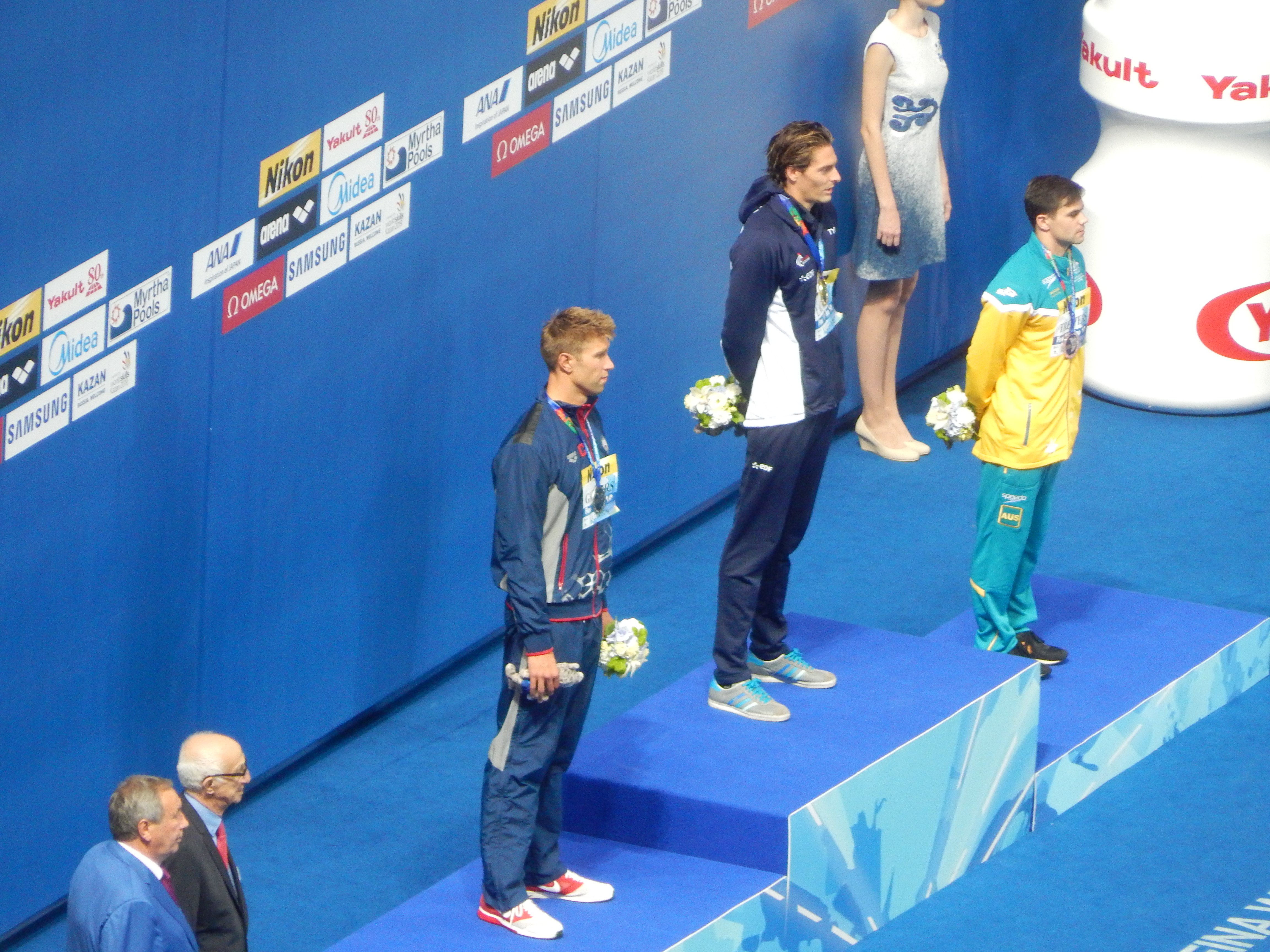 Medallists at the men's 50 metres backstroke in Kazan 2015